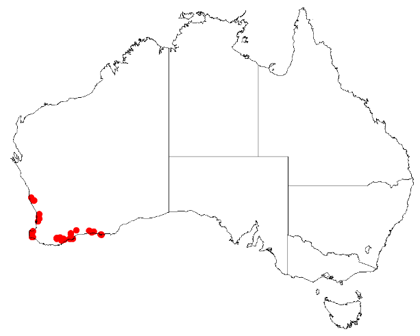 Desmocladus castaneus Occurrence data downloaded from Australasian Virtual Herbarium on 24 January 2019 using